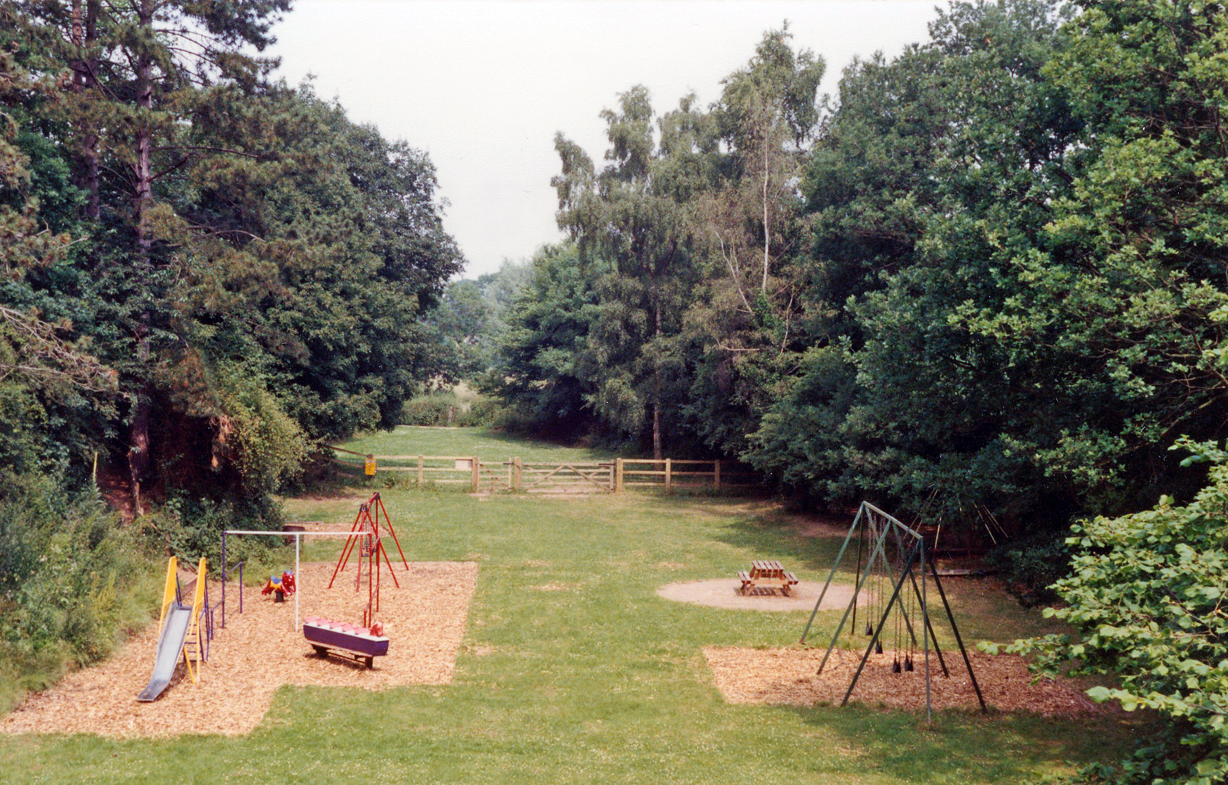 Site of former Dymock station, 1992. View NW, towards Ledbury: ex-GWR Gloucester - Ledbury branch, closed 13/7/59